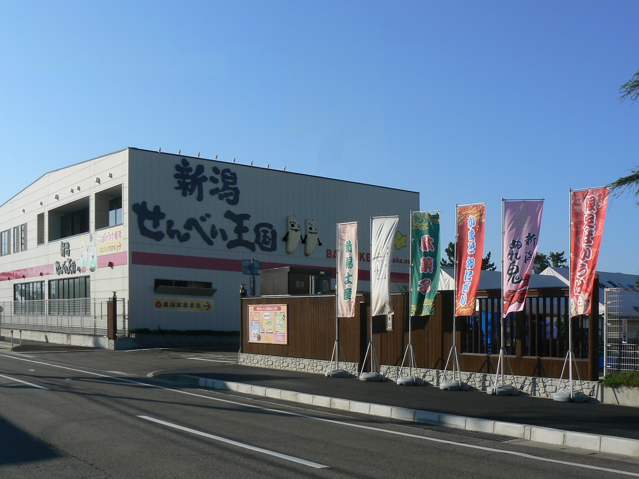 Niigata Senbei oukoku